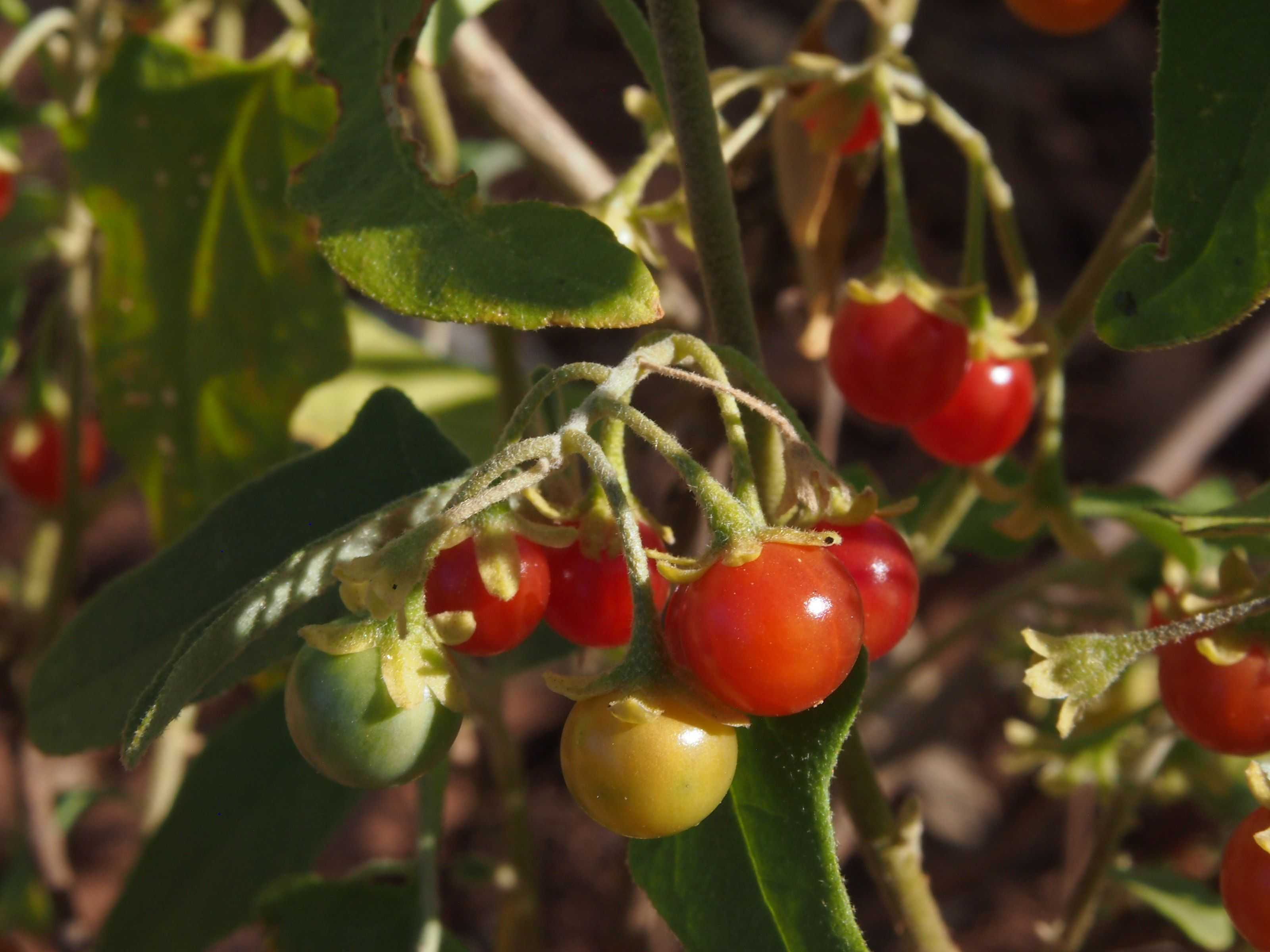 Solanum chenipodinum fruit